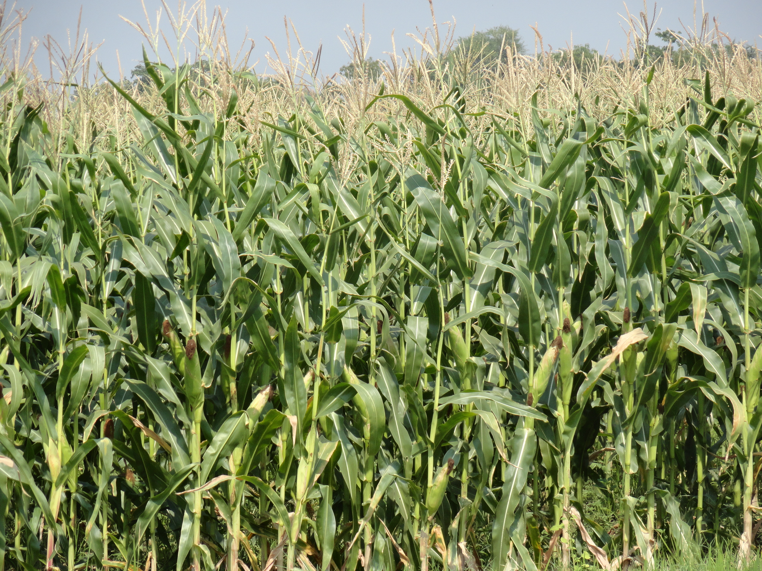 corn crop picture taken near nizamabad